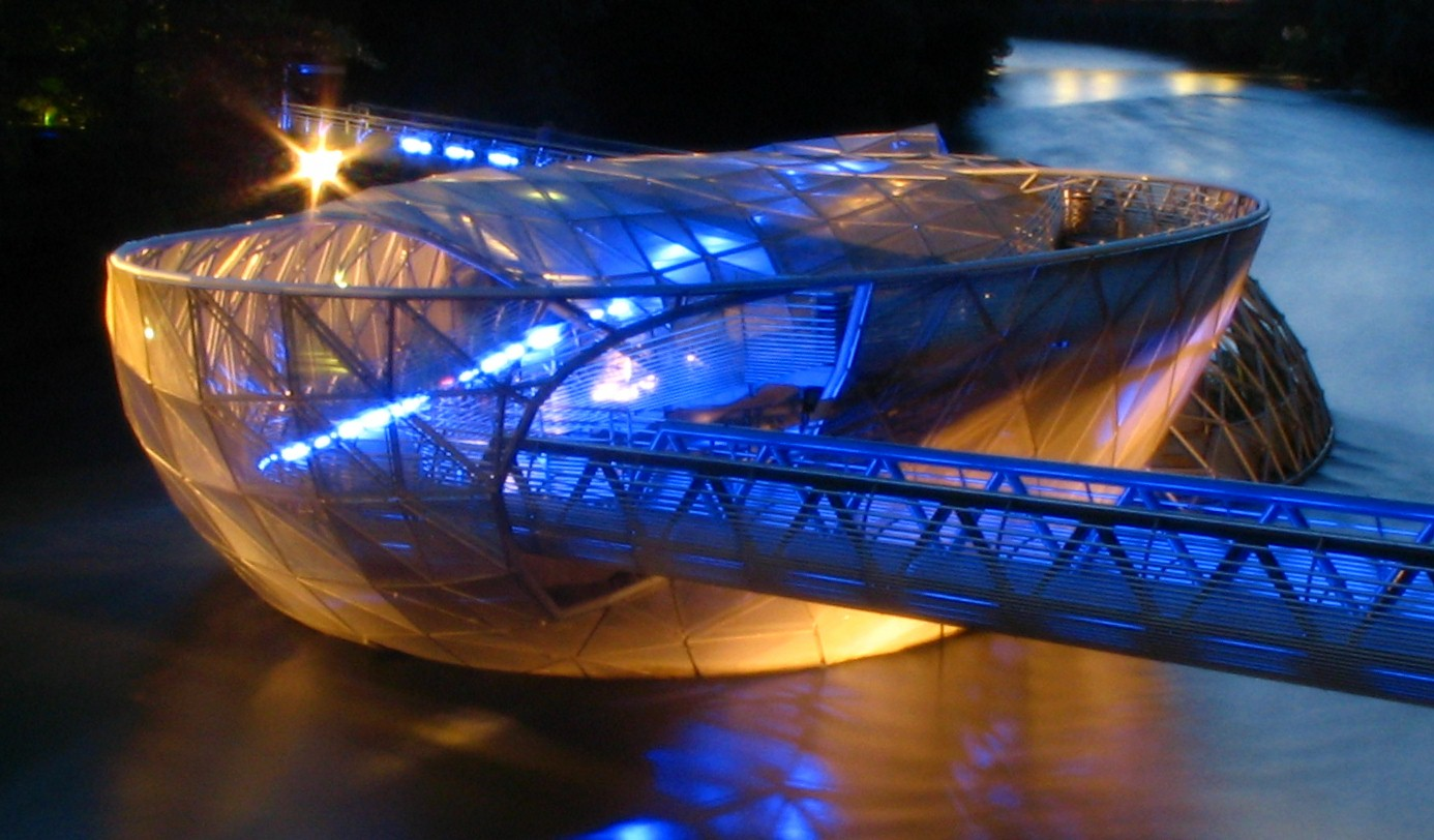 Murinsel, Graz, Austria